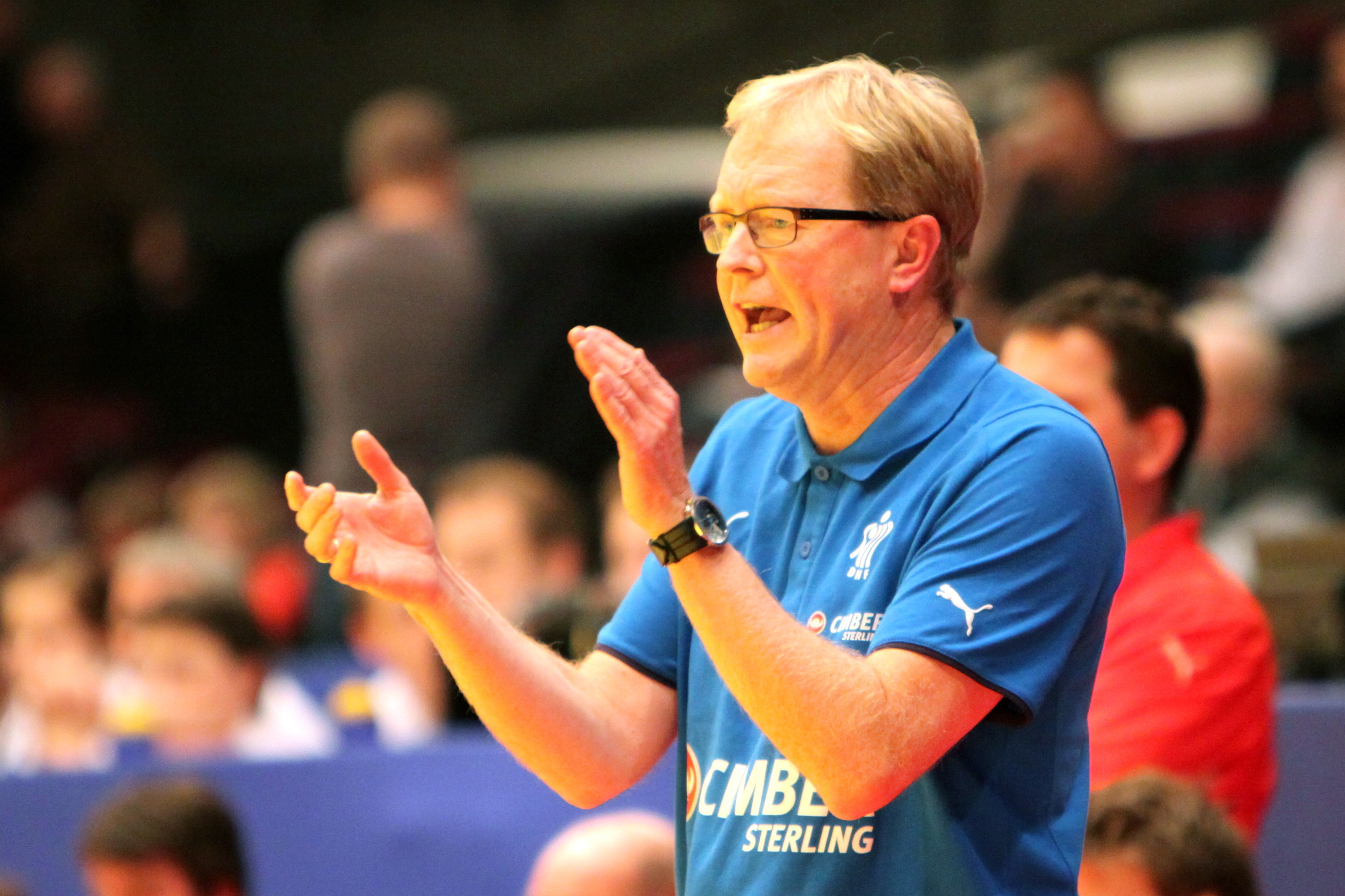 Ulrik Wilbek (Teamchef), Denmark national handball team